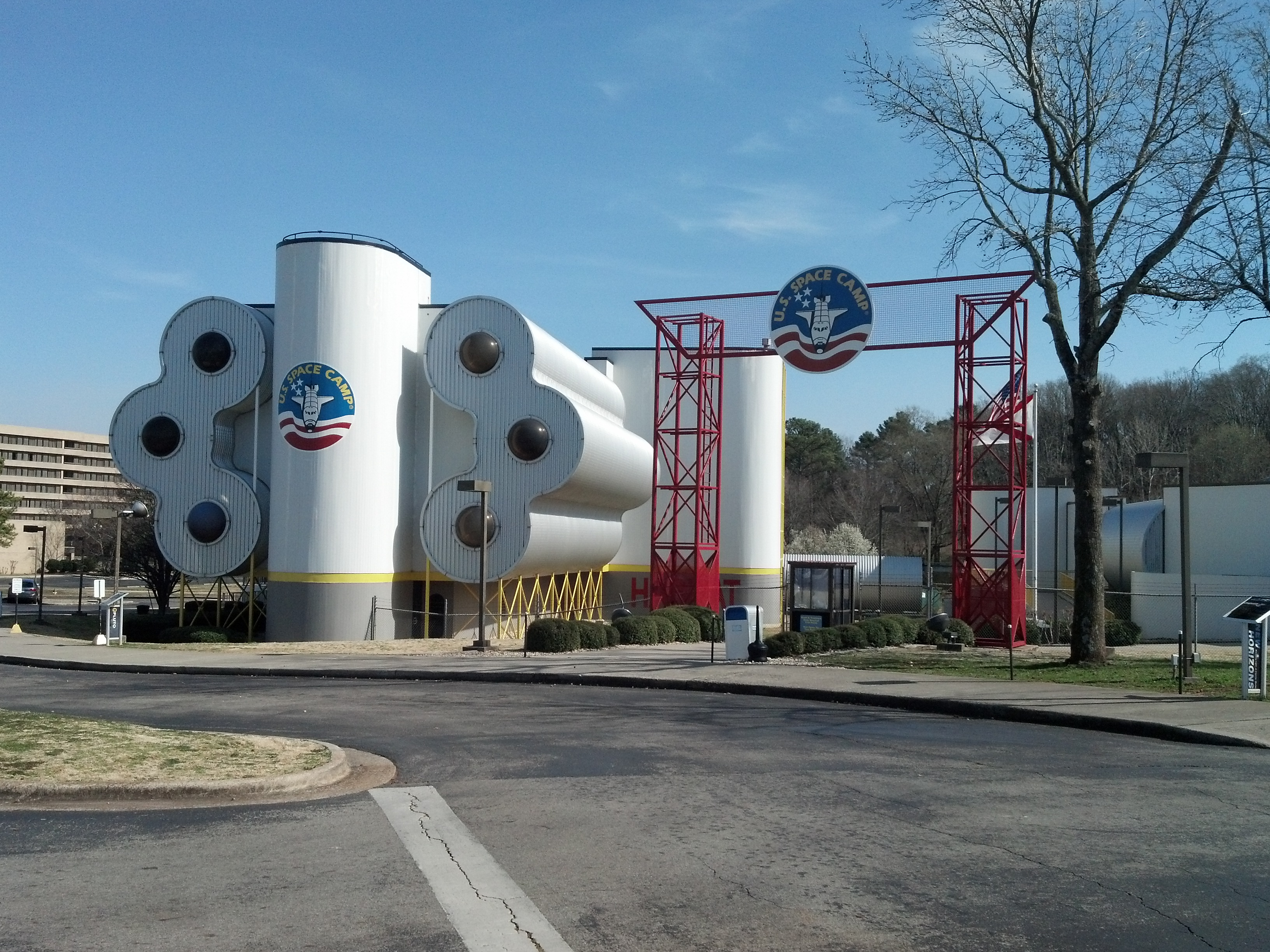 The Space Camp Habitat houses campers staying multiple days. Campers enter through the red gate